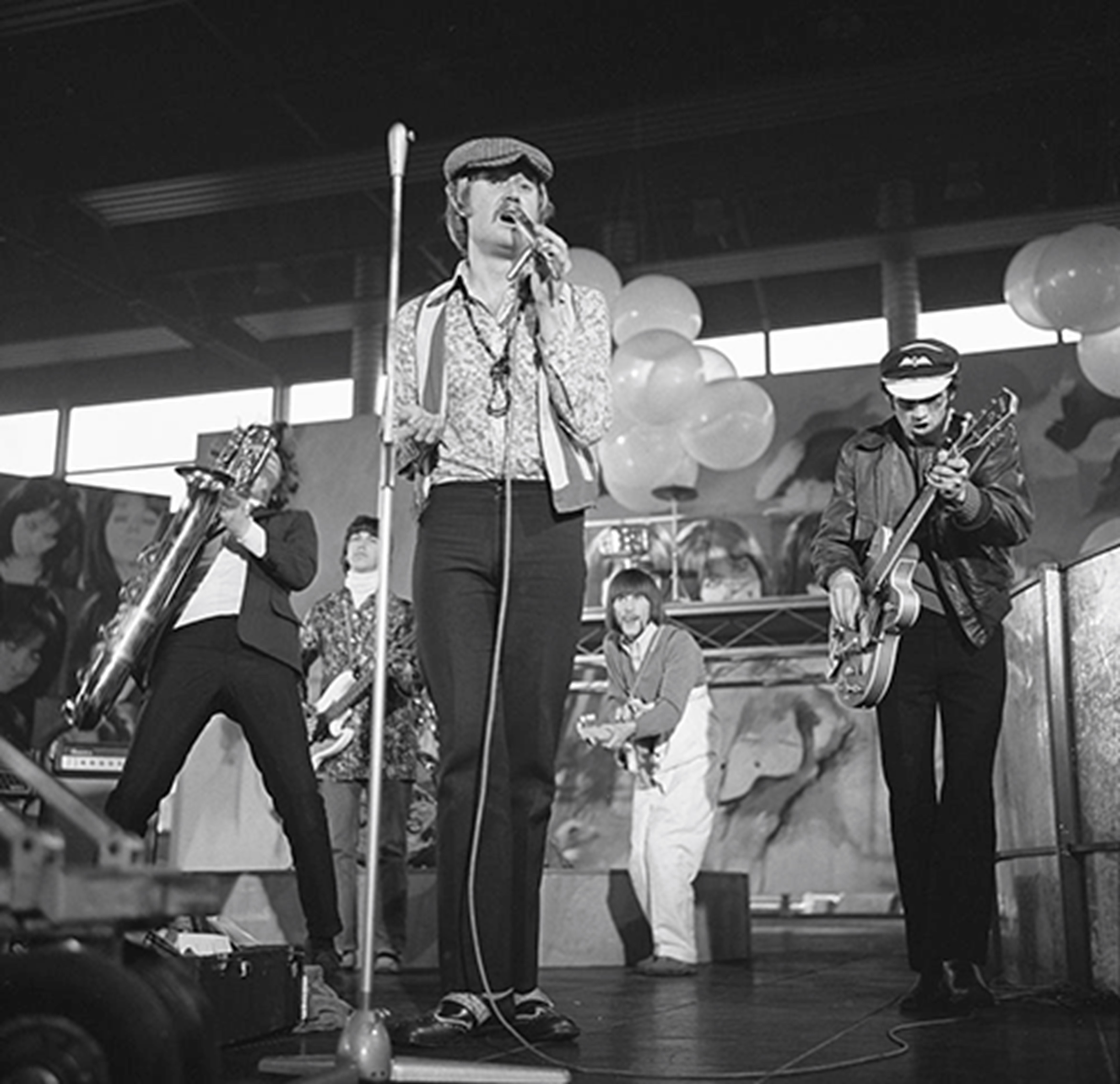 Bonzo Dog Doo-Dah Band in Fenklup (Dutch TV), recordings 7 June 1968. Broadcast 5 July 1968. Left to right: Rodney "Rhino" Desborough Slater, Vernon Dudley Bowhay-Nowell, Vivian Stanshall, Roger Ruskin Spear, Neil Innes.